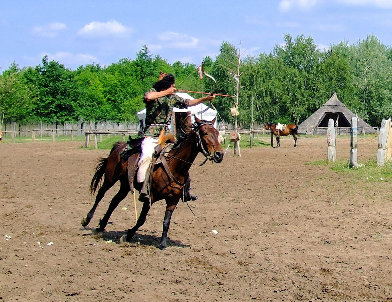 Hungarian horse archers presentation in Ópusztaszer (Hungary)